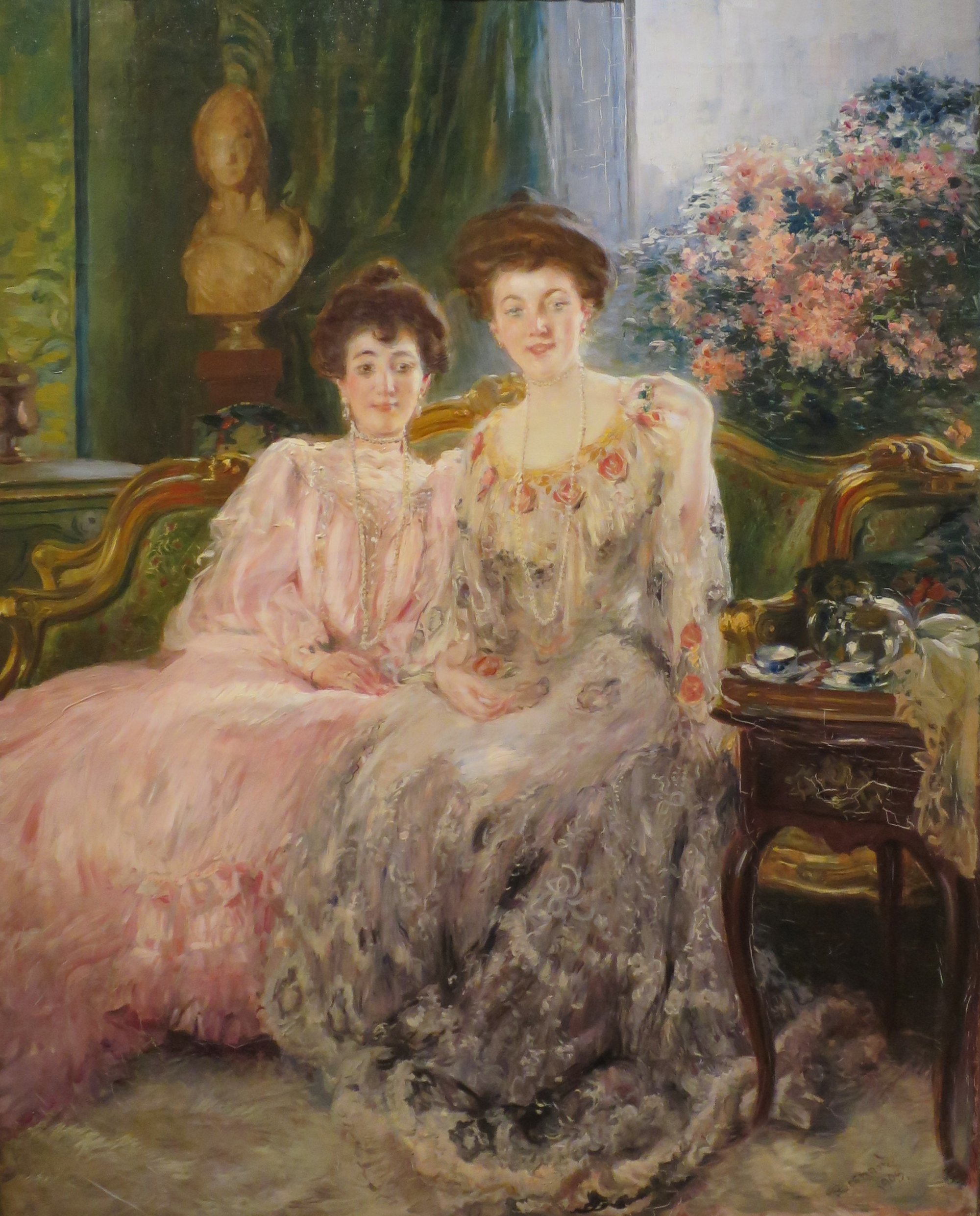 Portrait of the Kharitonenko sisters: Princess Elena Urusova and Countess N. P. Stenbock-Fermor, oil on canvas, 96 X 127 cm, Pushkin museum of fine Arts (Inv. No 3588)